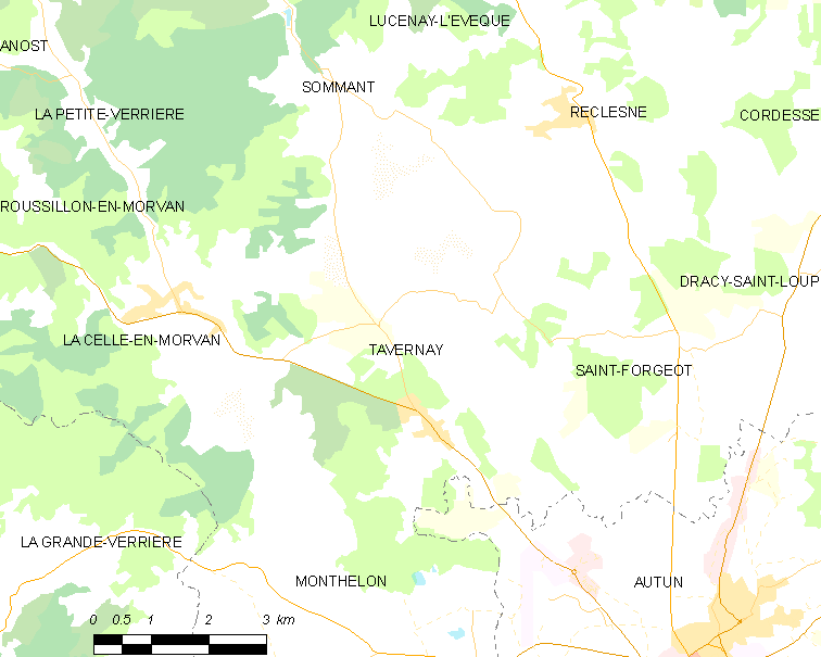 Map of French municipality